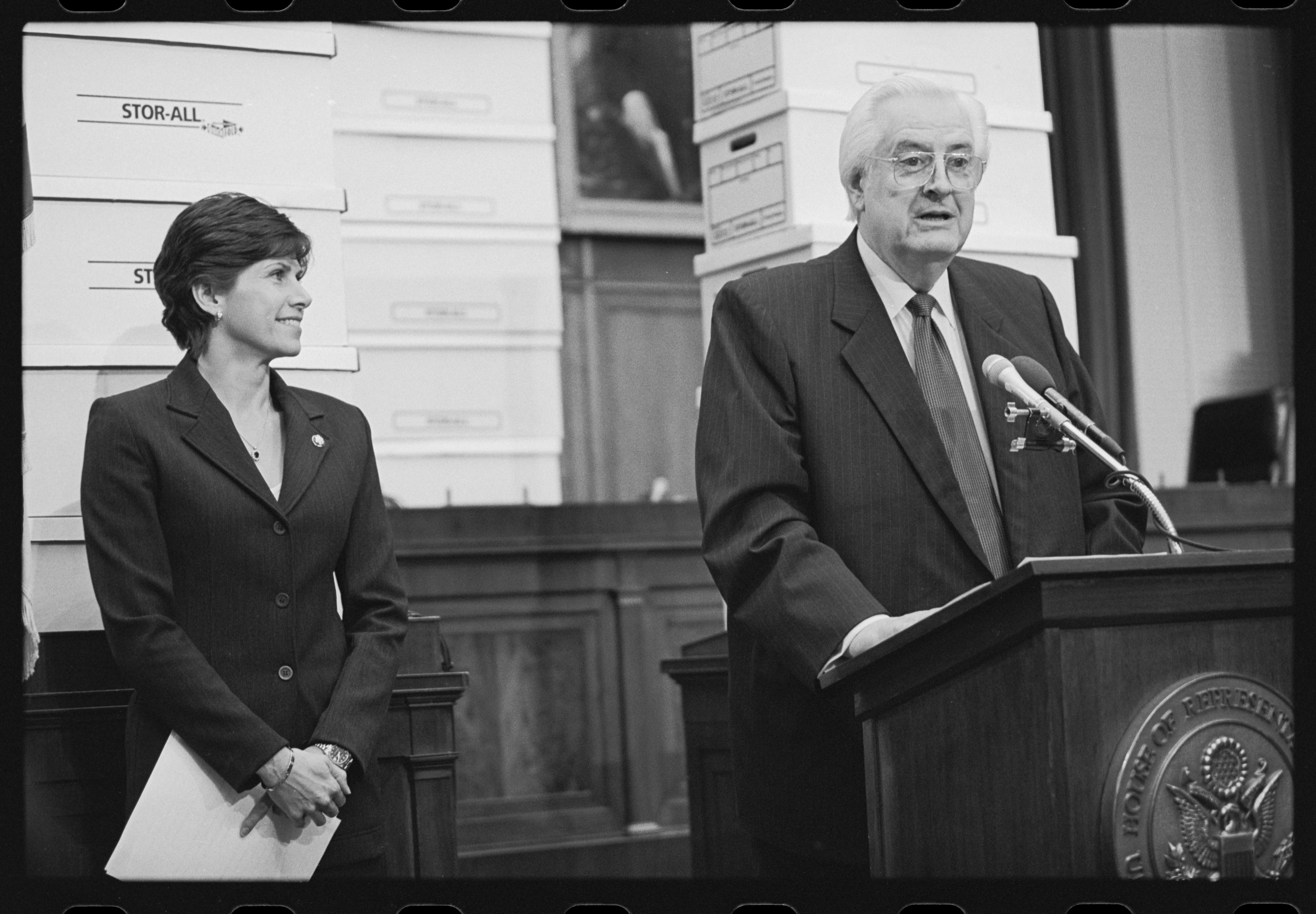 Representatives Mary Bono and Henry Hyde giving a press conference in front of piles of document boxes relating to the House Judiciary Committee investigation of President Clinton's relationship with Monica Lewinsky